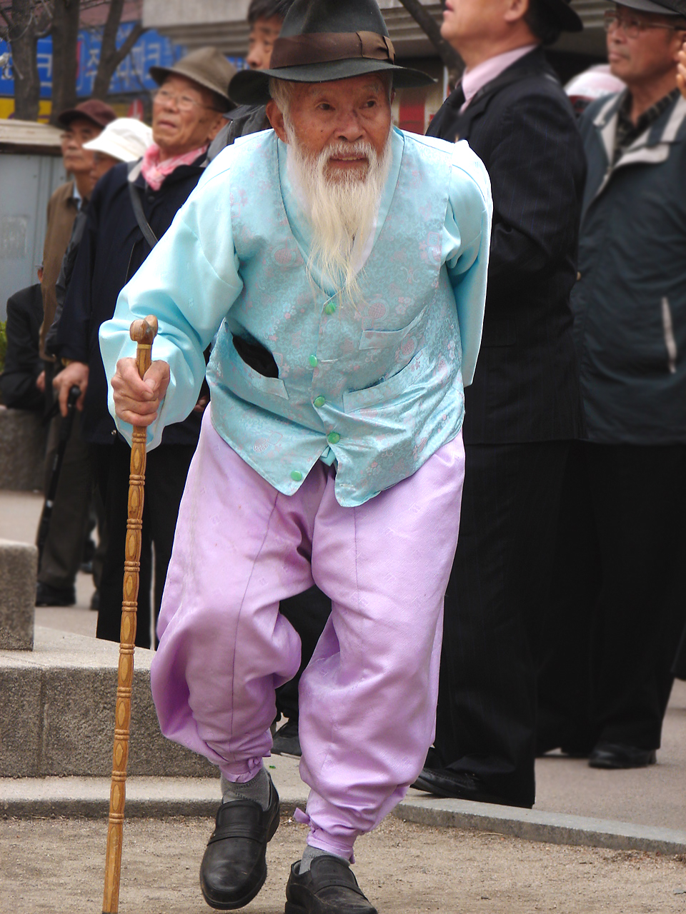 An elderly gentleman in traditional Korean dress, wearing a "jokki" (조끼, upper garment) over a "jeogori" and "baji" (바지, baggie trousers) in Seoul South Korea